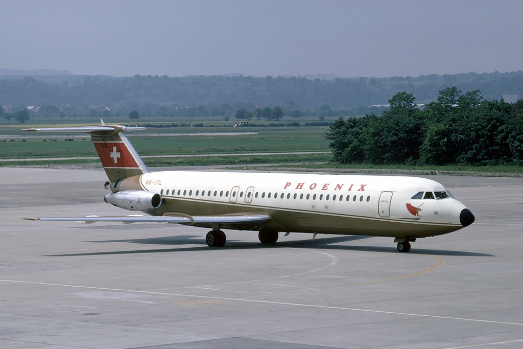 My 3000th image on AN I dedicate to one of my first successful airliner photos. At this time Phoenix Airways was one of the few swiss airlines independent of the Swissair group. Unfortunately a few months after this photo the company had to cease operations and sadly went bankrupt. The aircraft was later sold to Austral and crashed near Buenos Aires May, 7 1981.